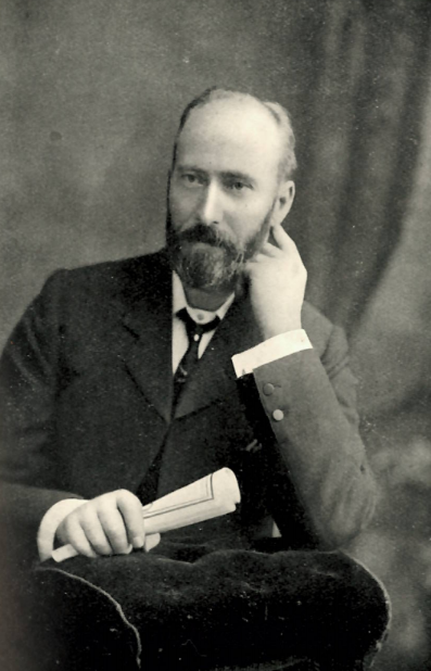 Thomas Henry Cann, Treasurer of the Durham Miners' Association, later General Secretary of the union